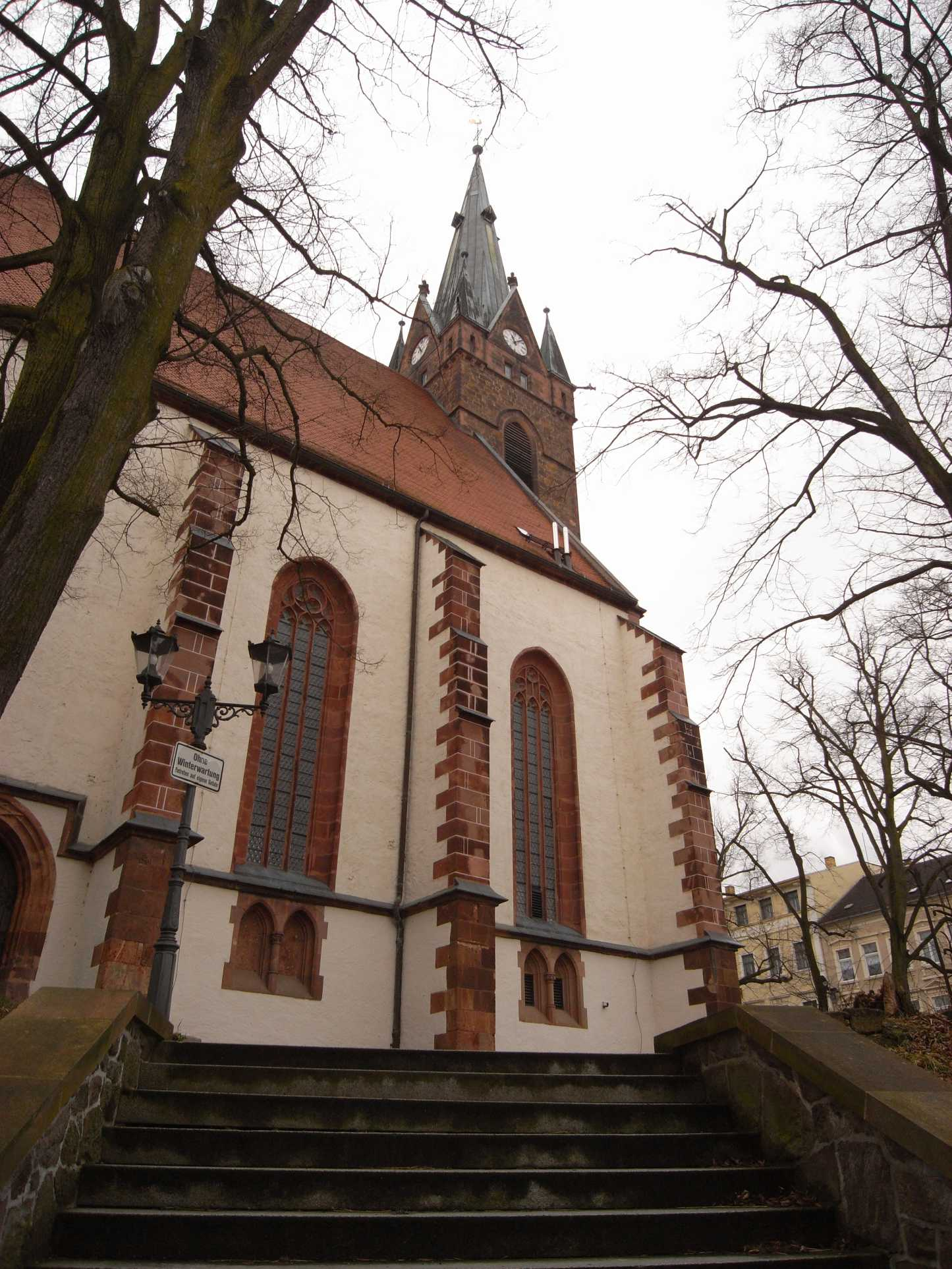 Leisnig, church St. Matthäi (built 1460-1484 of a romanesque ground)